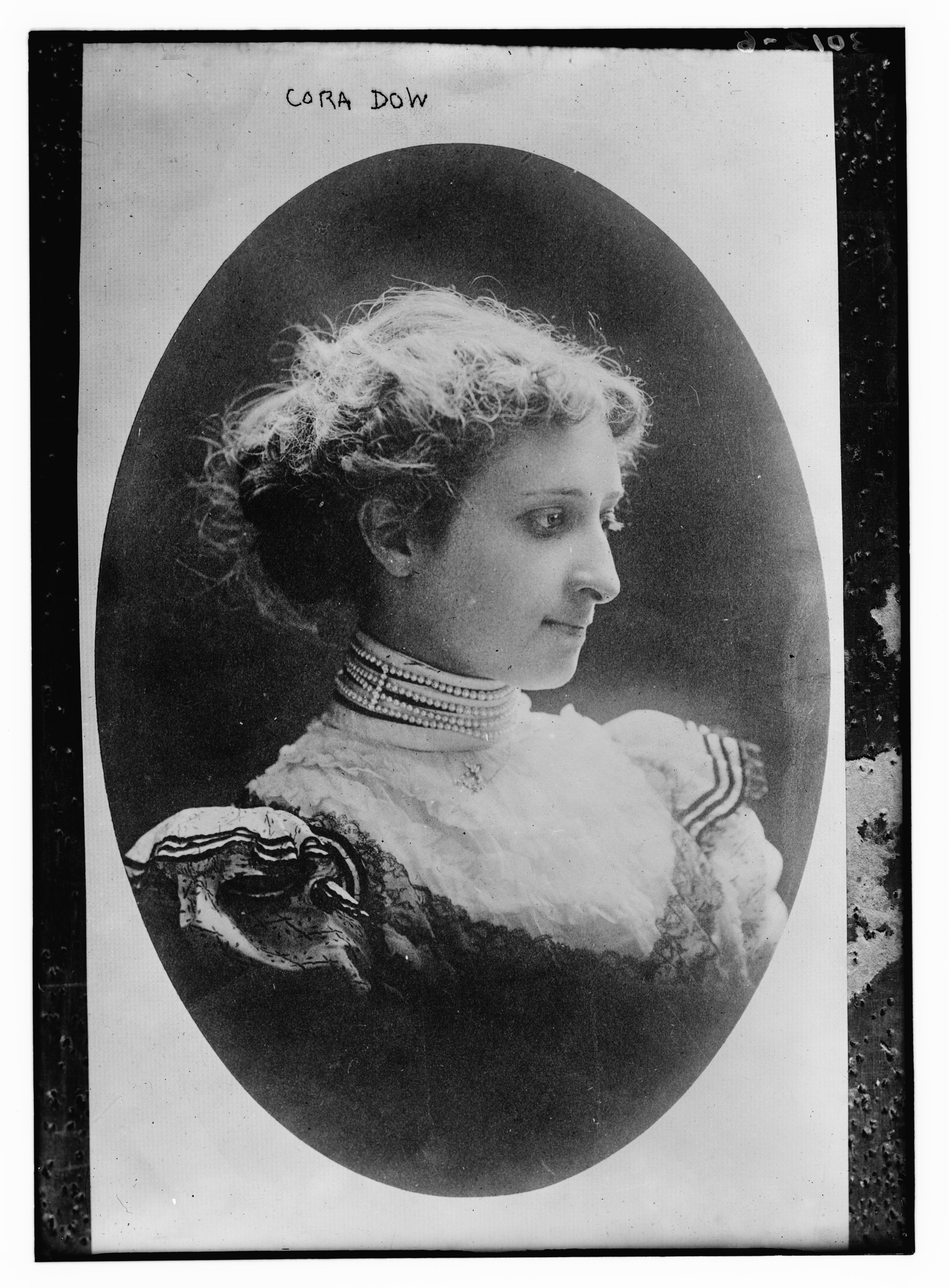 Title: Cora Dow Abstract/medium: 1 negative : glass ; 5 x 7 in. or smaller.